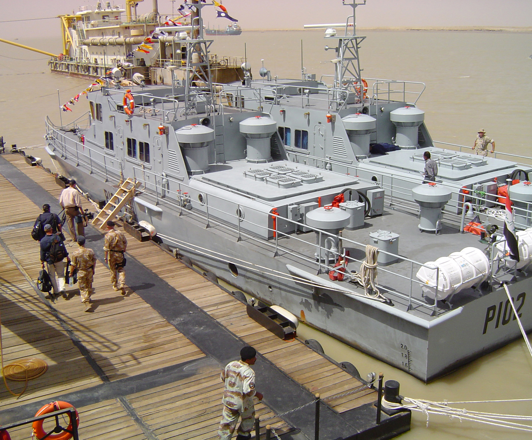 Umm Qasr, Iraq (Jun. 12, 2004)- CNN News anchor/reporter Brent Sadler goes aboard one of the first patrol boats assigned to the Iraqi Coastal Defense Force (ICDF). Twenty-Eight International Journalists attended the ICDF's opening ceremonies. The ceremonies marked the entry of five ICDF patrol boats into service. The 27-meter long Chinese-made crafts were originally to be acquired by the Saddam Hussein regime in 2002 under the oil-for-food program, but were not allowed to enter the country due to their military capabilities. U.S. Navy photo by Lt. Joshua Frey (RELEASED)